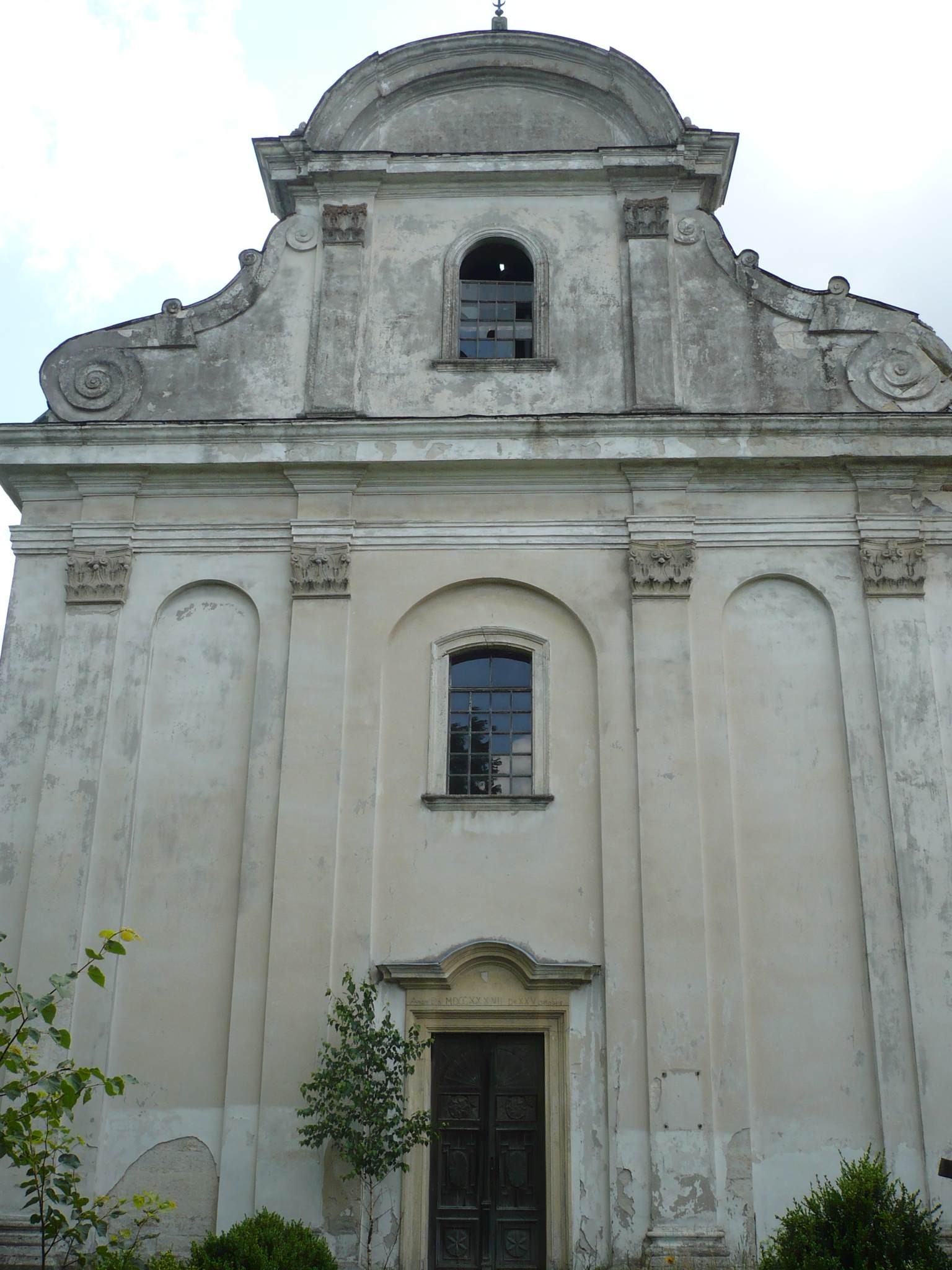 Church of the Assumption of Mary in Bilyi Kamin